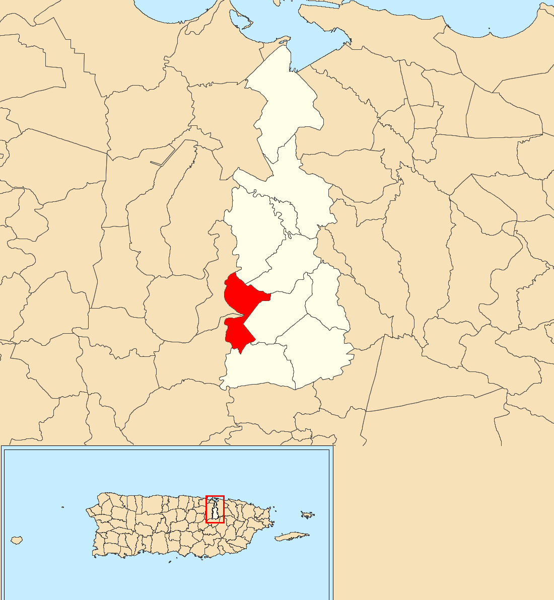 Guaraguao, Guaynabo, Puerto Rico locator map